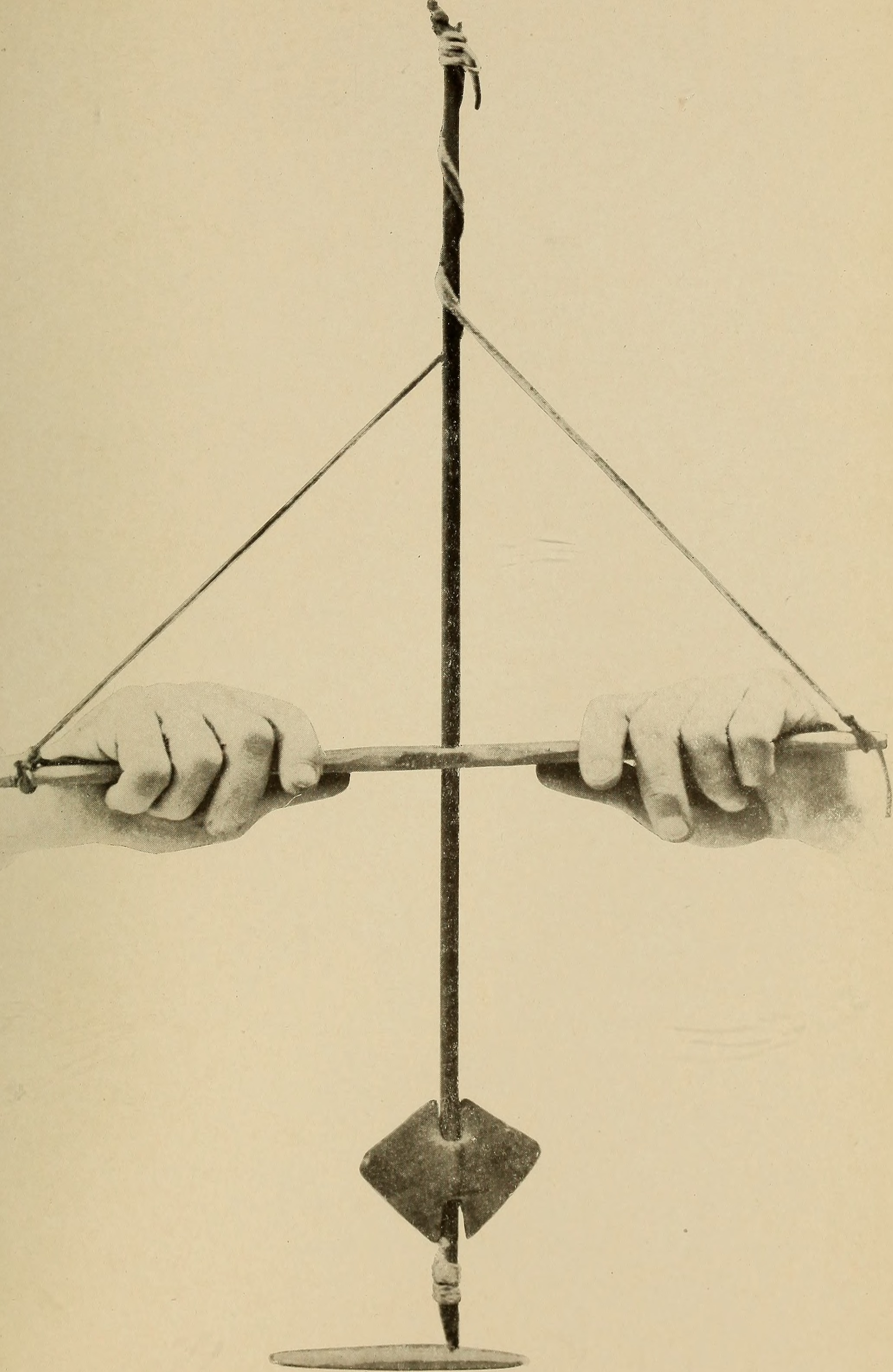 Title: Annual report Year: 1902 (1900s) Authors: New York State Museum Subjects: New York State Museum; Science; Science Publisher: Albany : University of the State of New York Text Appearing Before Image: Plate 4 Text Appearing After Image: Showing method of using a pump drill with a bannerstone as a spindle whorl for perforating a slate tablet